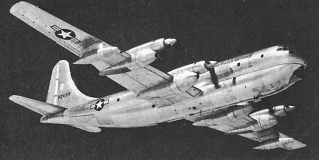 A Boeing YC-97J Stratofreighter in flight. USAF s/n 52-2693 and 52-2762 were fitted with T34 turboprops. The first flight of this model was in February 1955.